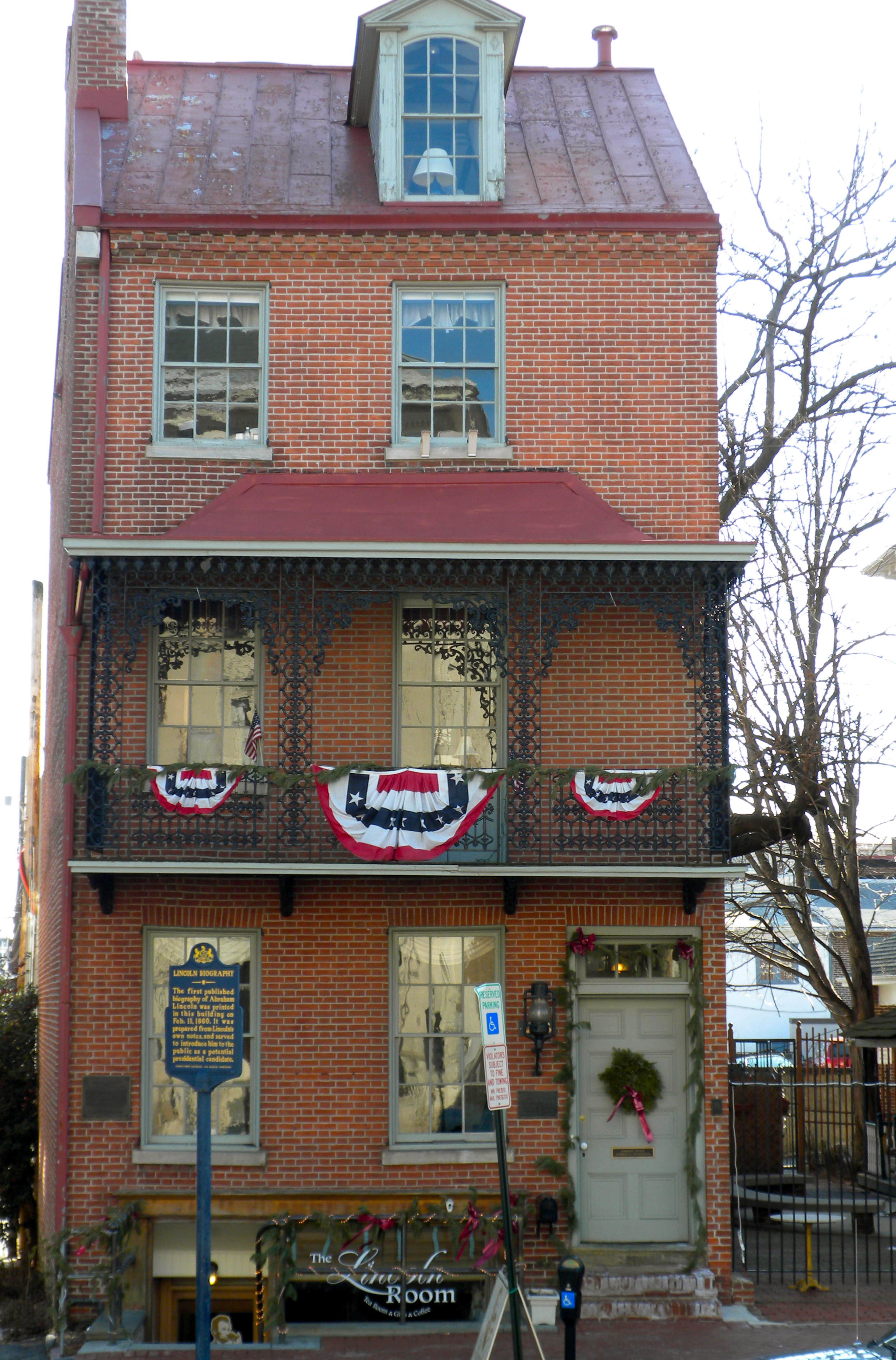 William Everhart Buildings 28 West Market Street, West Chester PA. A printing house where Abraham Lincoln's first biography was published on Feb. 11, 1860 (from historical marker in fron of building). On NRHP. I donate this photo to the public domain.